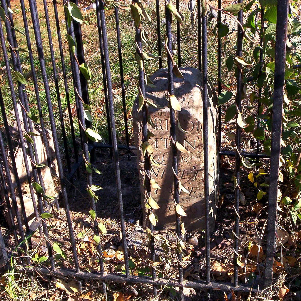 Boundary stone of the District of Columbia NE 6 - that is it is located 6 mile southeast of the northernmost DC boundary stone.